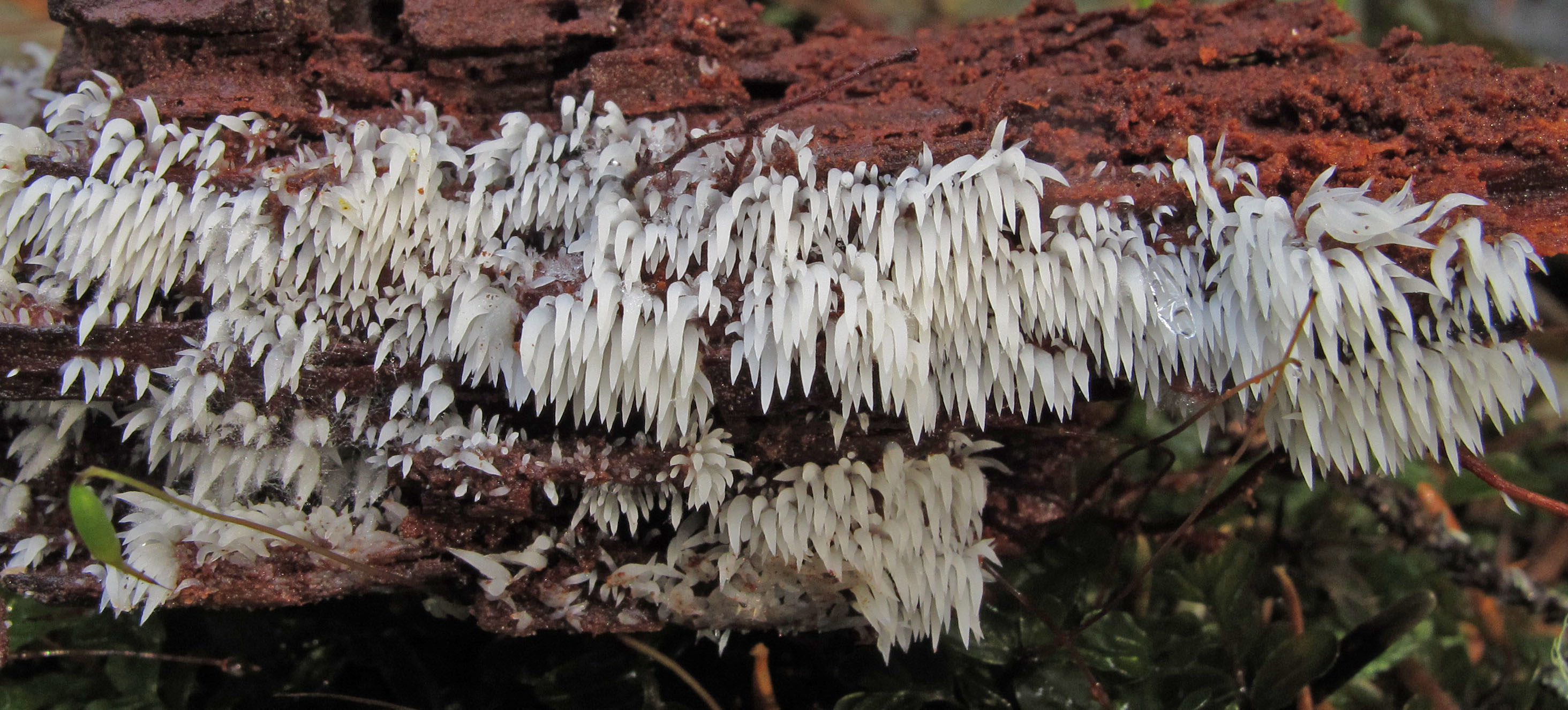 Mucronella bresadolae (Quél.) Corner Image location: Clatsop Co., Oregon, USA Found near Sunset Highway rest area. Growing on rotten conifer stump, spines pointing downwards. Spores (from crush mount) 8-10 × 5-6 microns. I measured larger sopres and they are much longer than in descriptions of M. bresadolae. I wonder if the spores I measured were of something else that contaminated this collection. Basidia 4-spored, one measured 25 × 8 microns. Used references: MatchMaker; Fungi of Switzerland, vol. 2 For more information about this, see the observation page at Mushroom Observer.